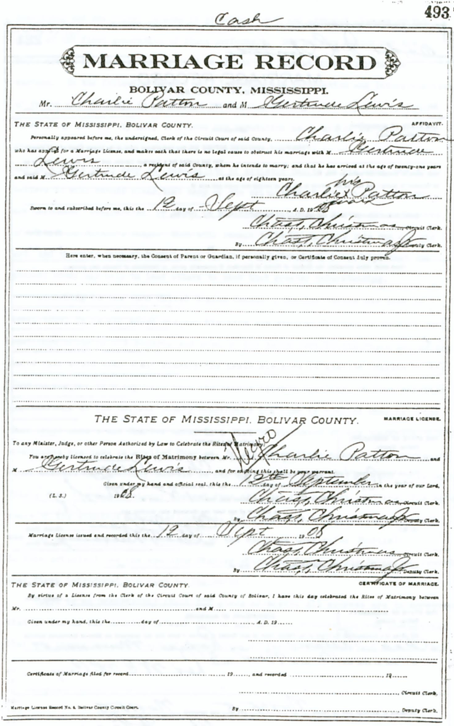 Marriage record of Charley Patton & Gertrude Lewis from 1908